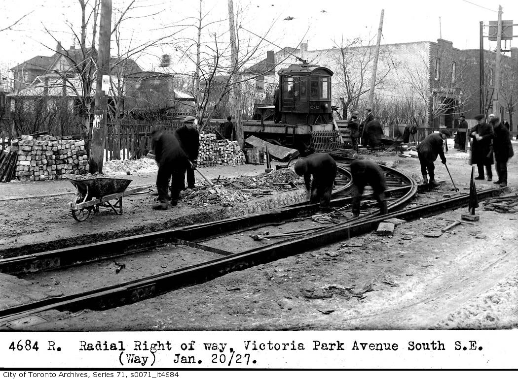 Item is a photograph looking at a view of TTC employees work on special trackwork on Victoria Park Avenue North of Kingston Road, at radial private right of way running east of Victoria Park.